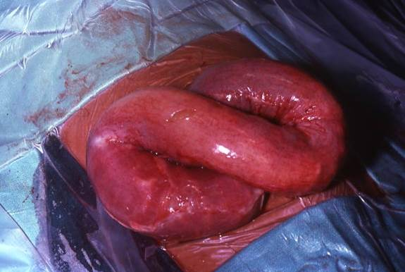 This bowel is tightly packed with ascaris. It is so tightly packed that it is semi-rigid and inflexible and the outer layers of the bowel wall, the muscle layers, have started to split under the tension. Photo by Larry Hadley, South Africa This photo was also used in an article here: South African Journal of Surgery 1996;34(1):33-36